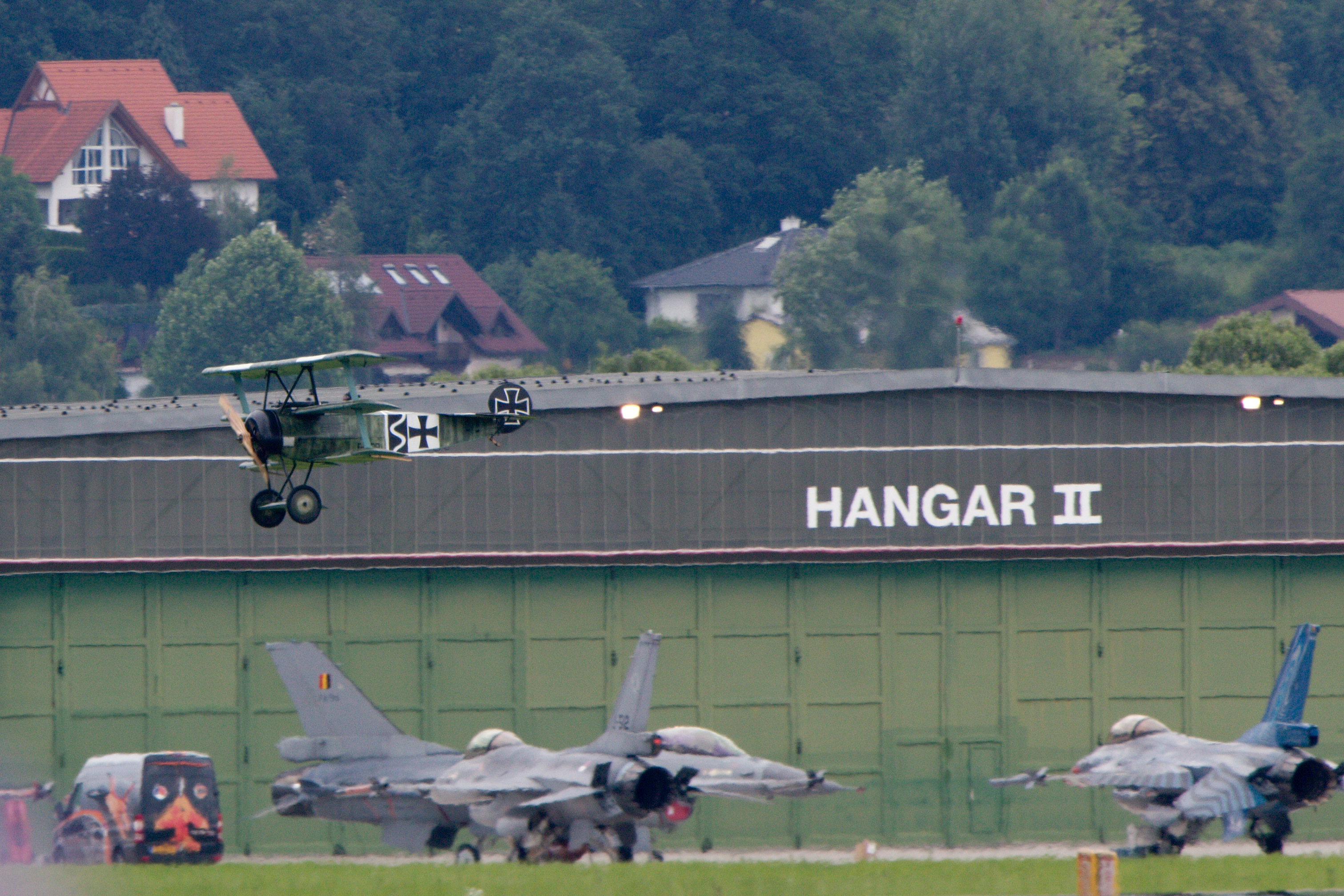 Fokker Dr.I at Airpower11 Replica 2008, Mikael Carlson